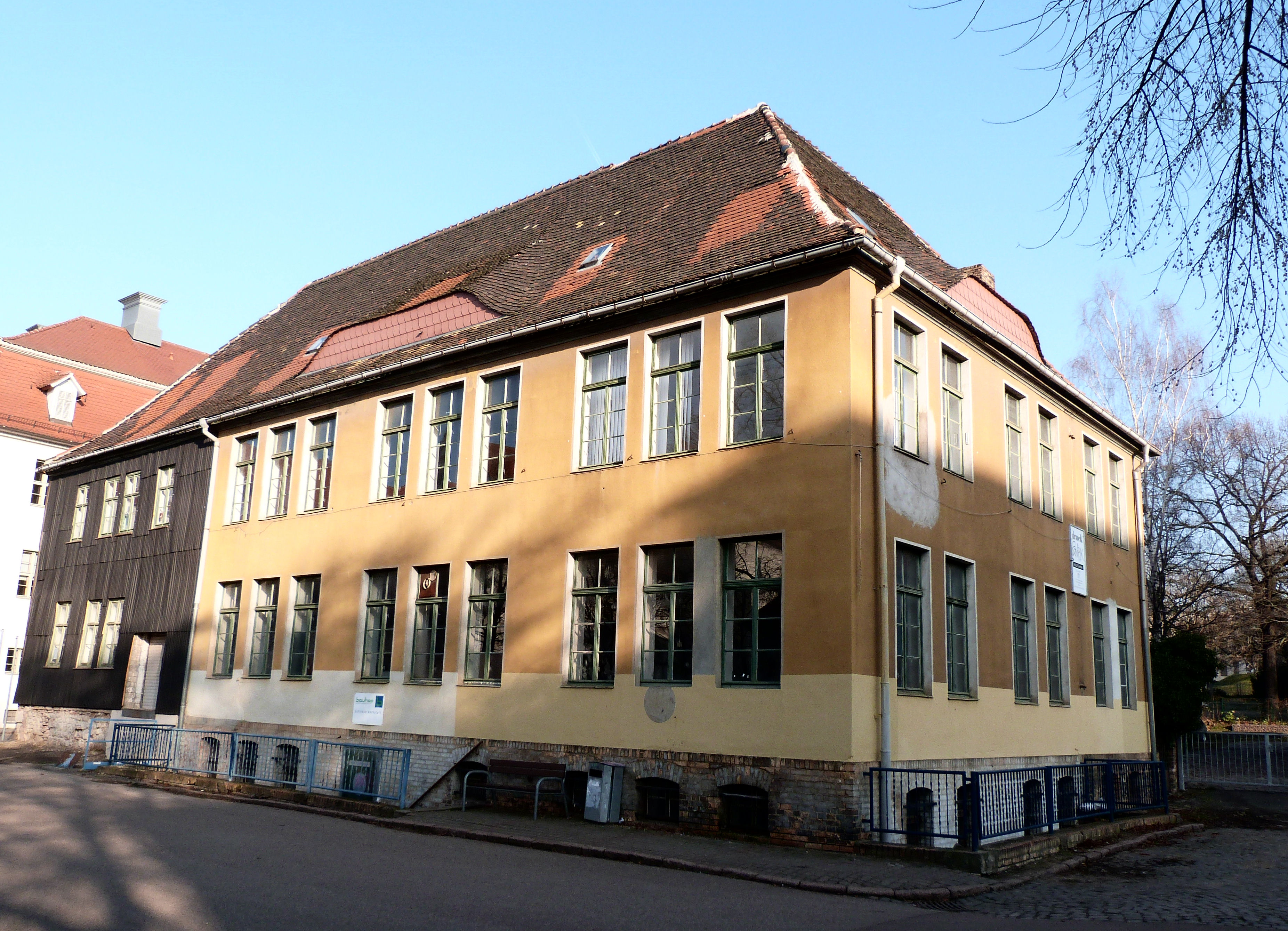 House 52/53 former printing house, built in 1744, Francke foundations in Halle (Saale)